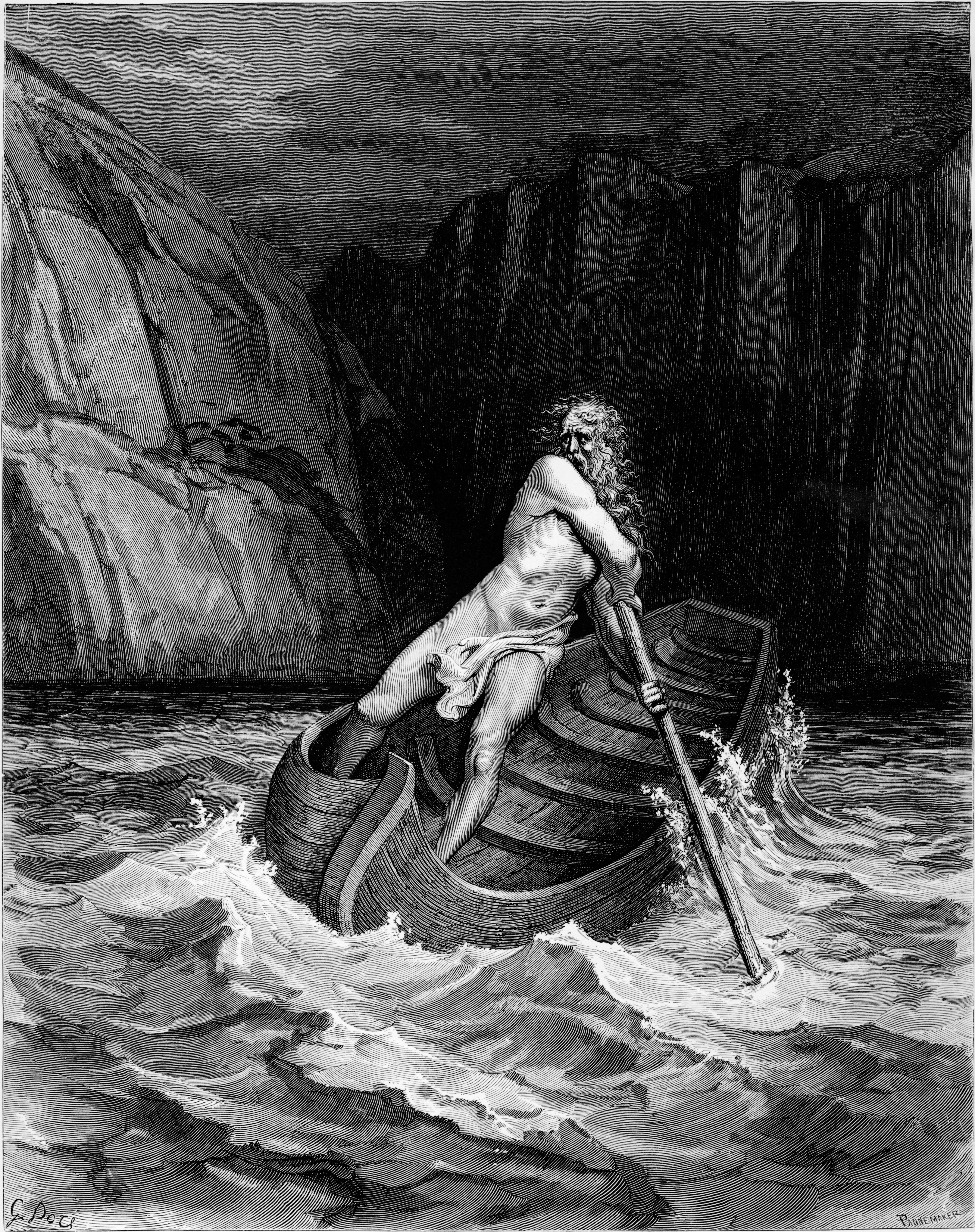 Charon. Illustration of Dante's Divina Commedia